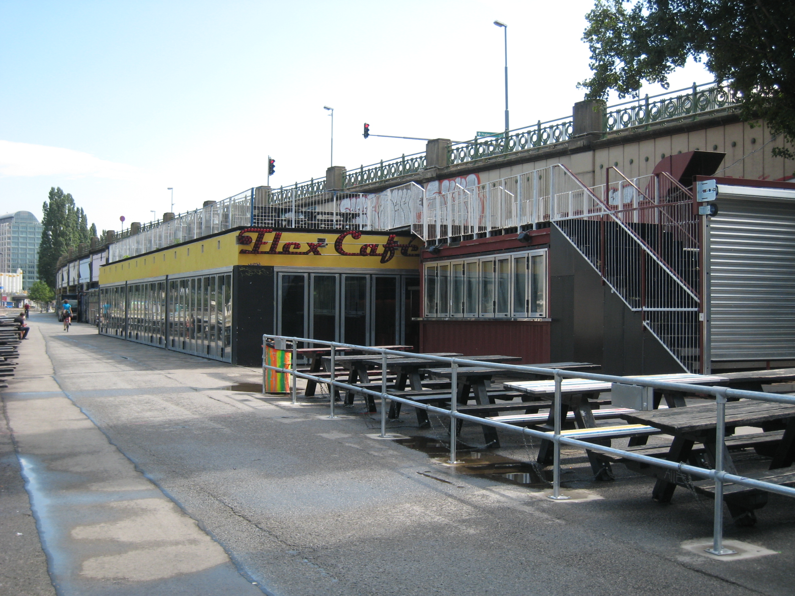 The club "Flex" at the Donaukanal in Vienna, Austria